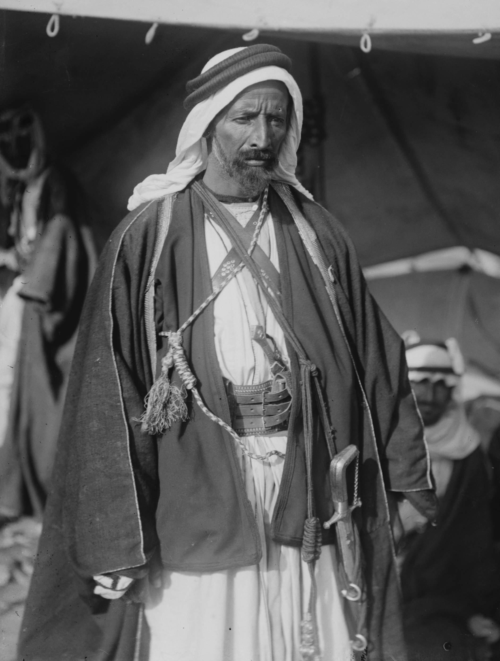 Title: Sir Herbert Samuel's second visit to Transjordan, etc. Oudi Abou Tai, the famous Bedouin sheikh. Abstract/medium: G. Eric and Edith Matson Photograph Collection Physical description: 1 negative